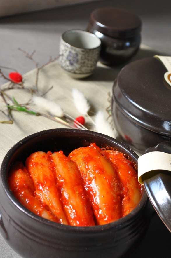 myeongnanjeot (pollock roe)